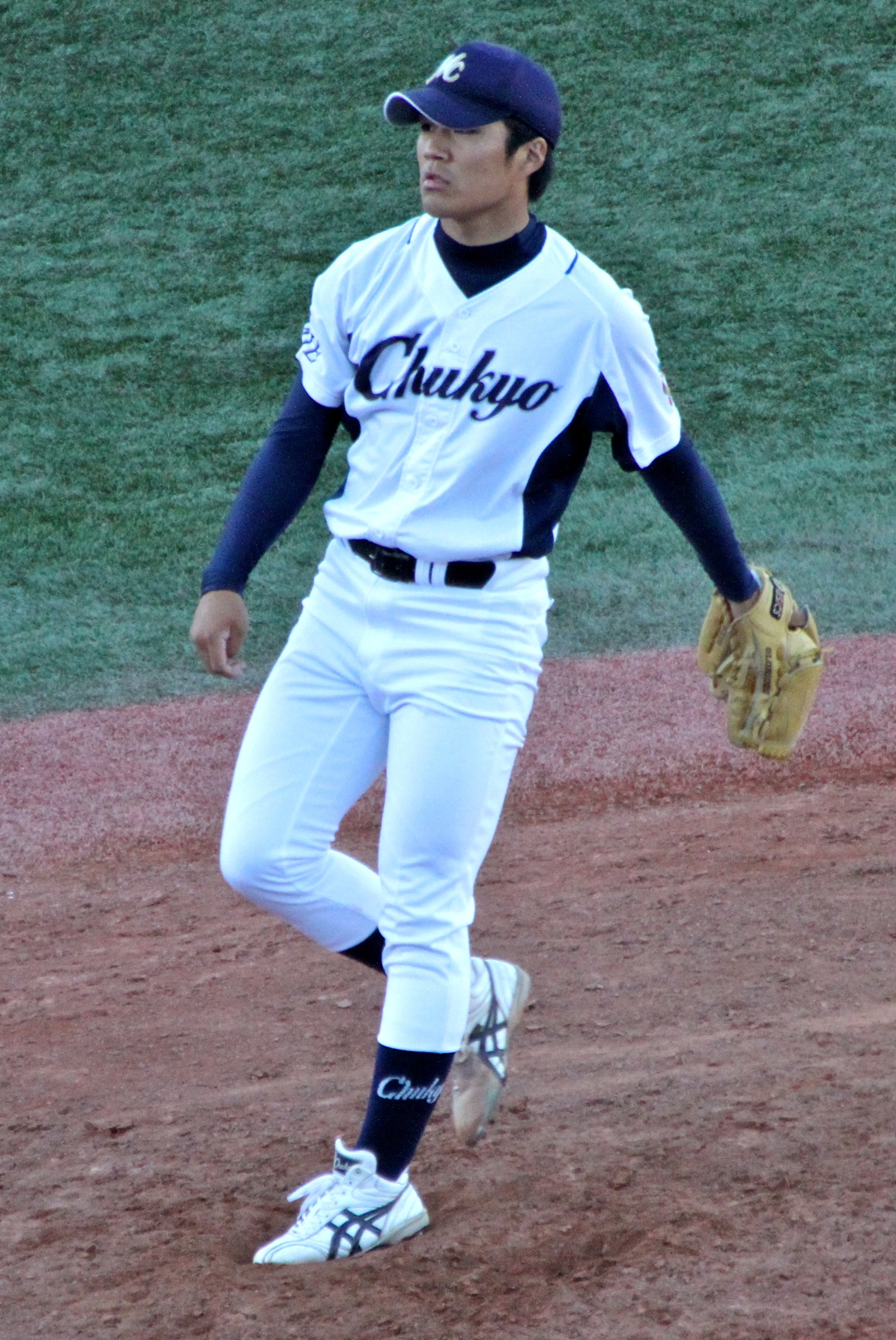 Takahiro Norimoto, pitcher of the Mie Chukyo University Baseball Club, at Meiji Jingu Stadium.